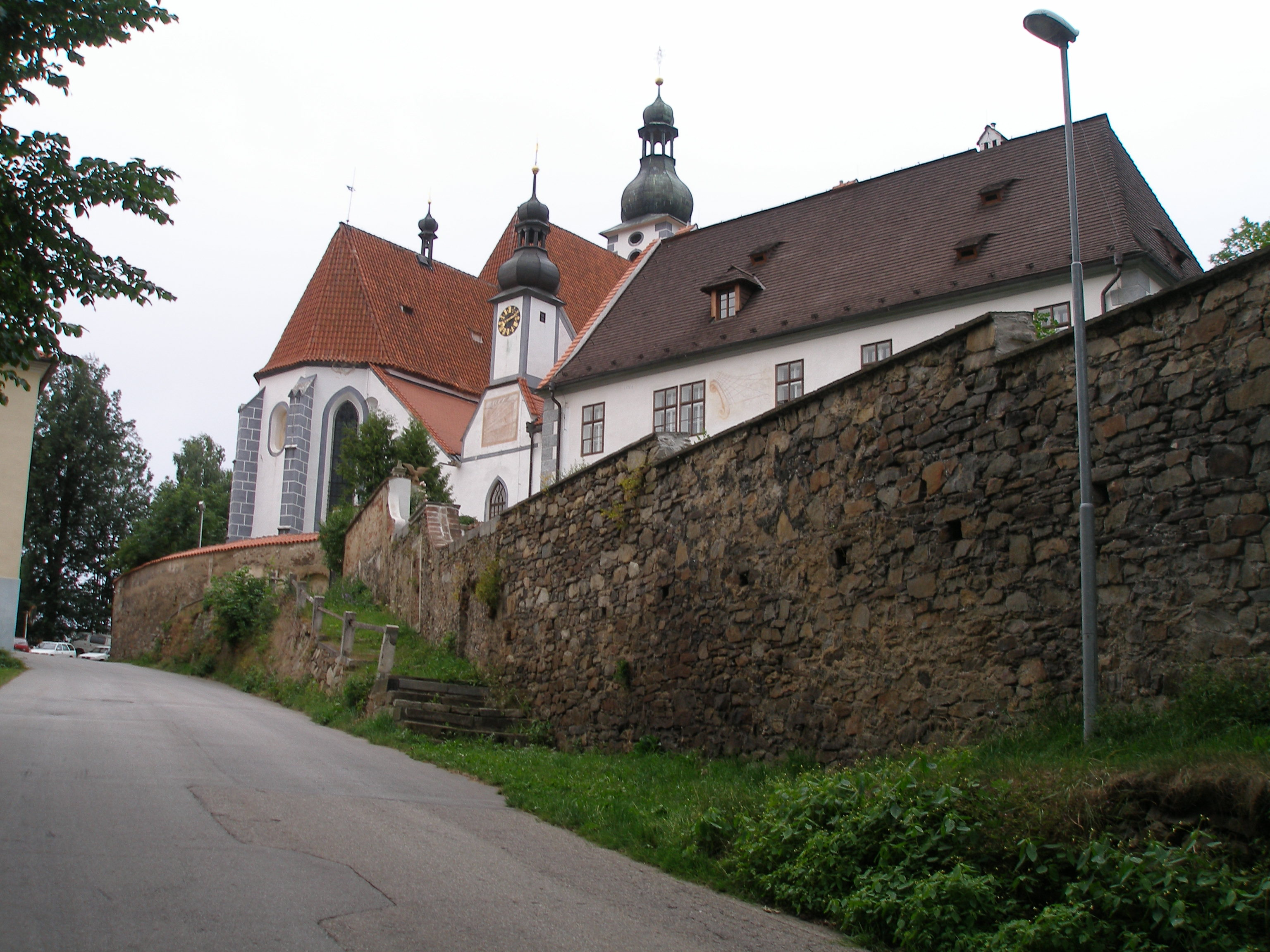 Churches and rectory in Kájov